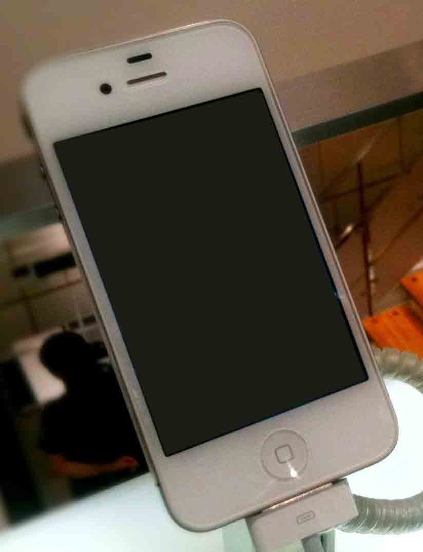 White iPhone 4 displayed at a Softbank mobile store in Omotesando, Tokyo